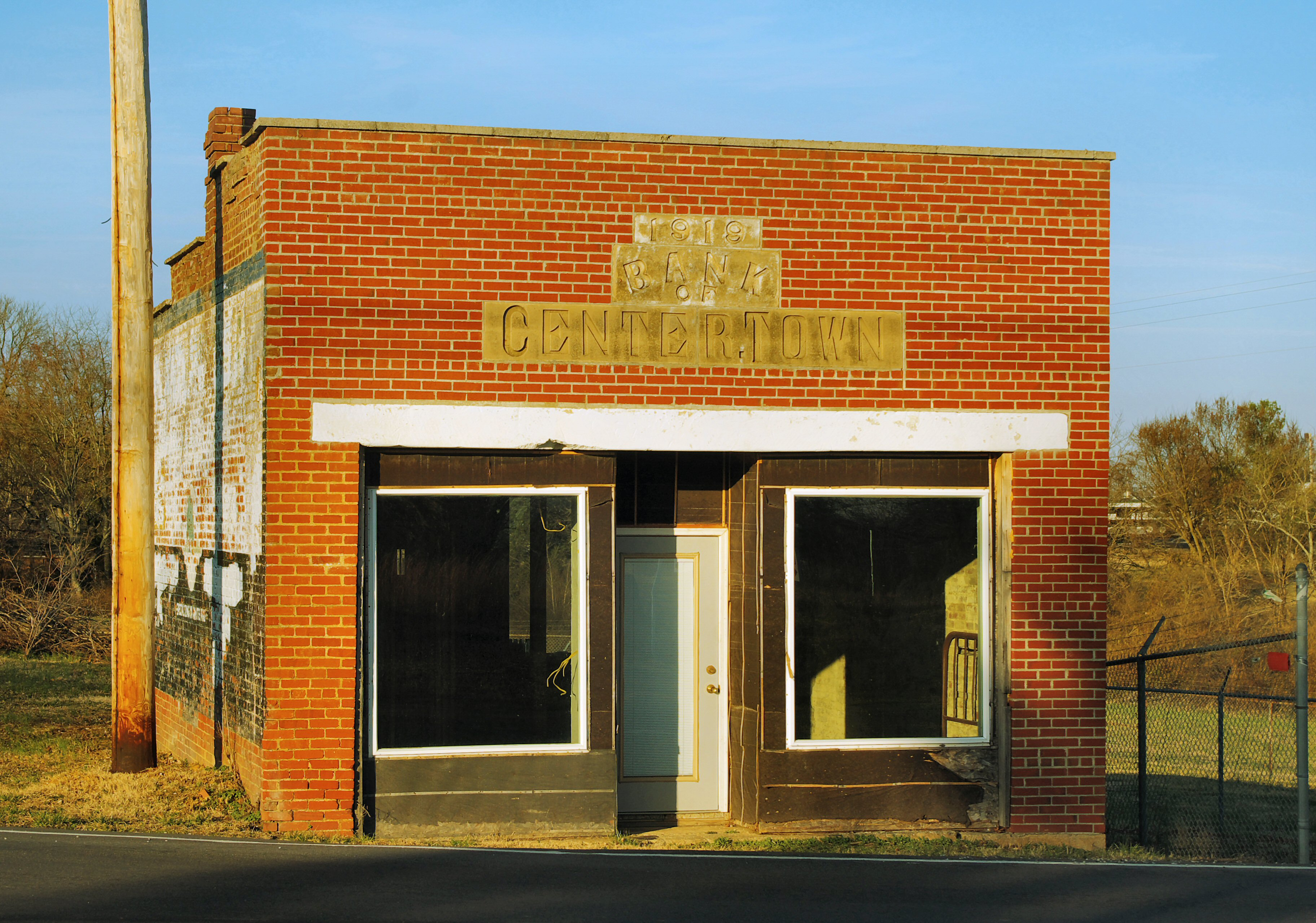 The old Bank of Centertown building, built 1918, in Centertown, Tennessee, United States